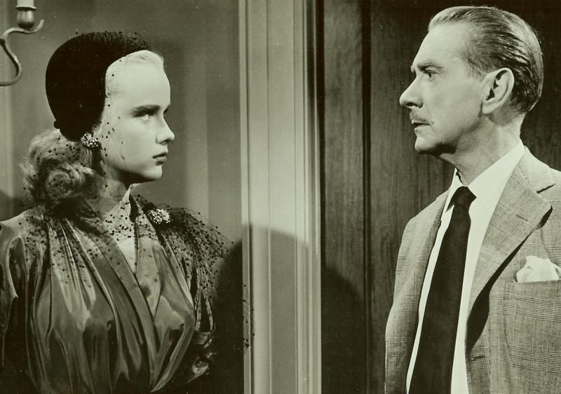 Promotion photo from Dreamboat (1952) featuring Anne Francis and Clifton Webb.